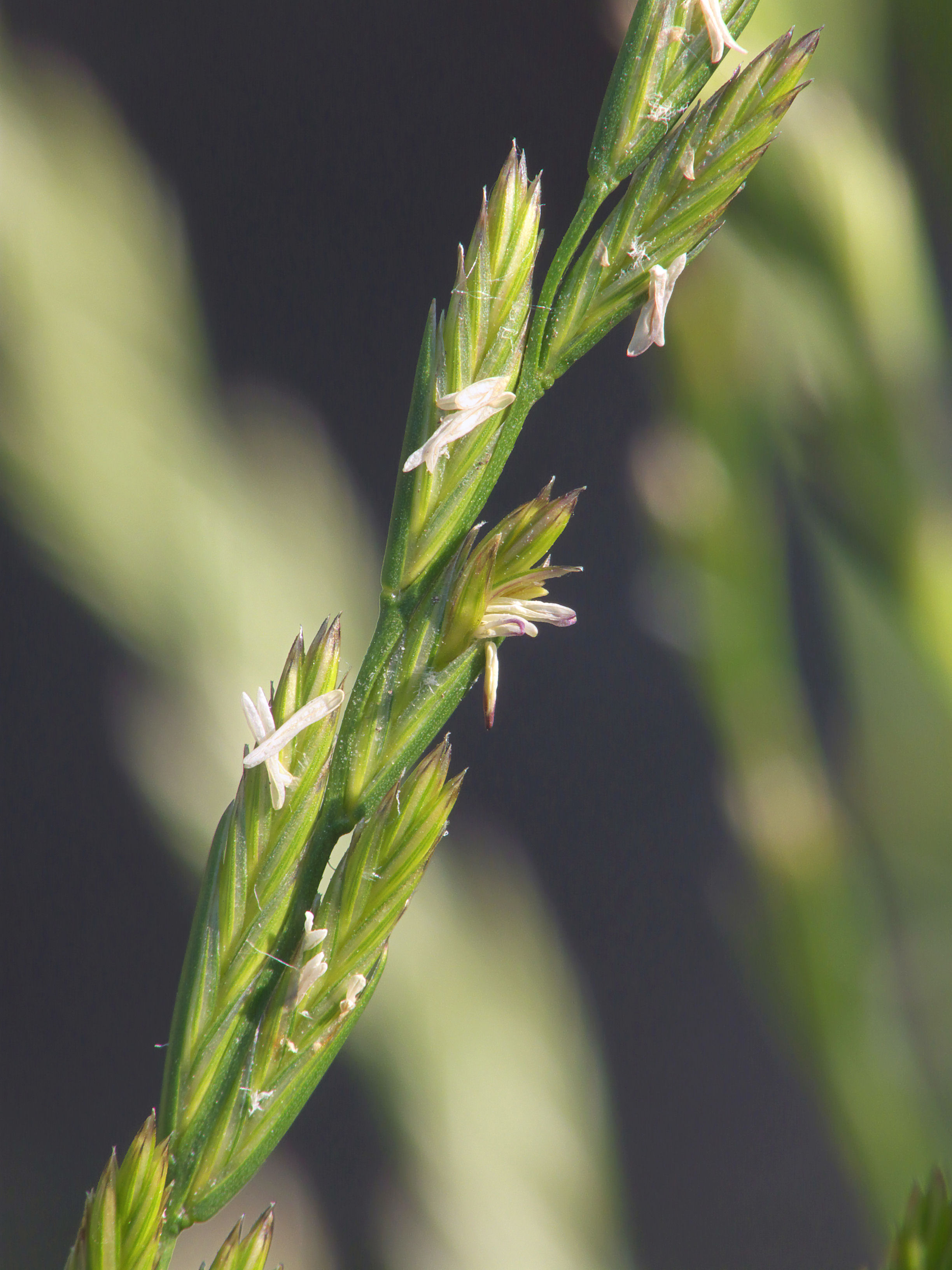 Lolium perenne flowers